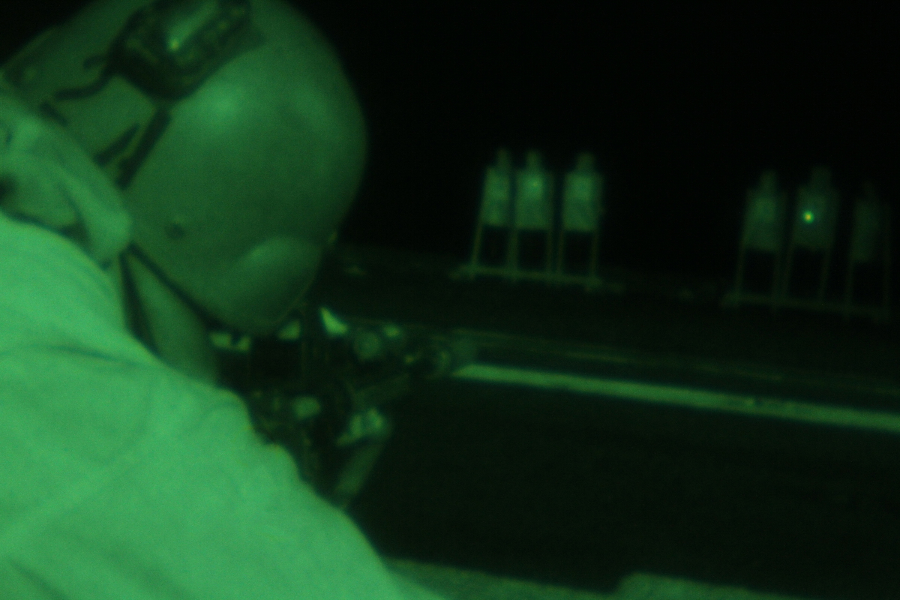 A Marine from the 24th Marine Expeditionary Unit’s Maritime Raid Force, a detachment from Force Reconnaissance Company, 2nd Recon Battalion, uses an AN/PEQ-15 laser to sight on his target, during a night-time live-fire exercise aboard the amphibious assault ship USS Iwo Jima (LHD 7), Feb. 18, 2015. The 24th MEU is embarked on the ships of the Iwo Jima Amphibious Ready Group and deployed to maintain regional security in the U.S. 5th Fleet area of operations. (U.S. Marine Corps photo by Lance Cpl. Dani A. Zunun/Released)